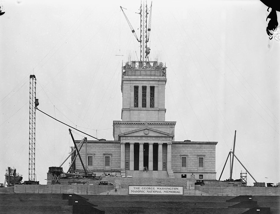 GEORGE WASHINGTON MEMORIAL UNDER CONSTRUCTION